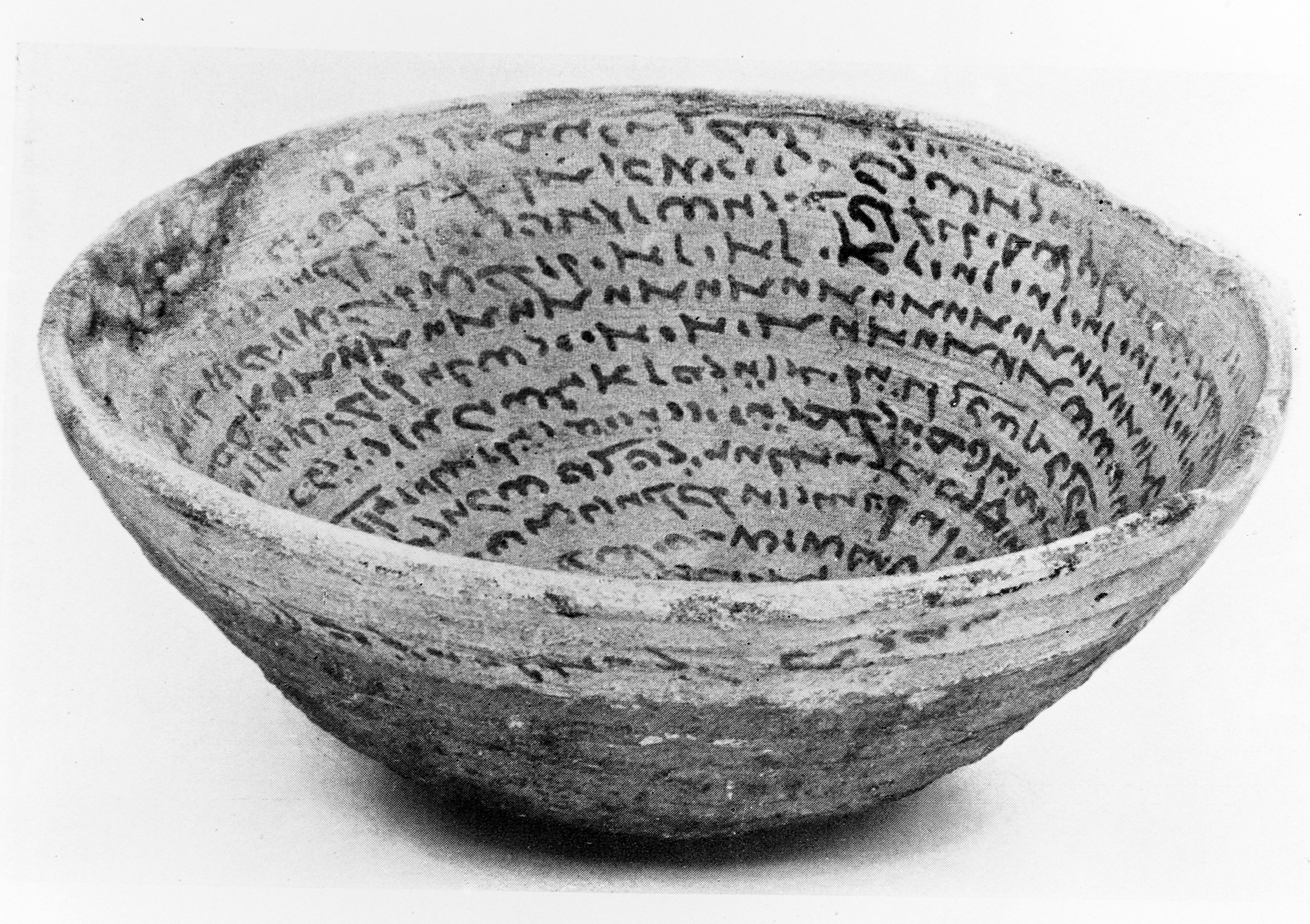 Magical terracotta bowl with inscriptions in Mandaic, Jewish from Mesopotamia. Wellcome Images Keywords: magic-religious objects; indigenous non-european medicine